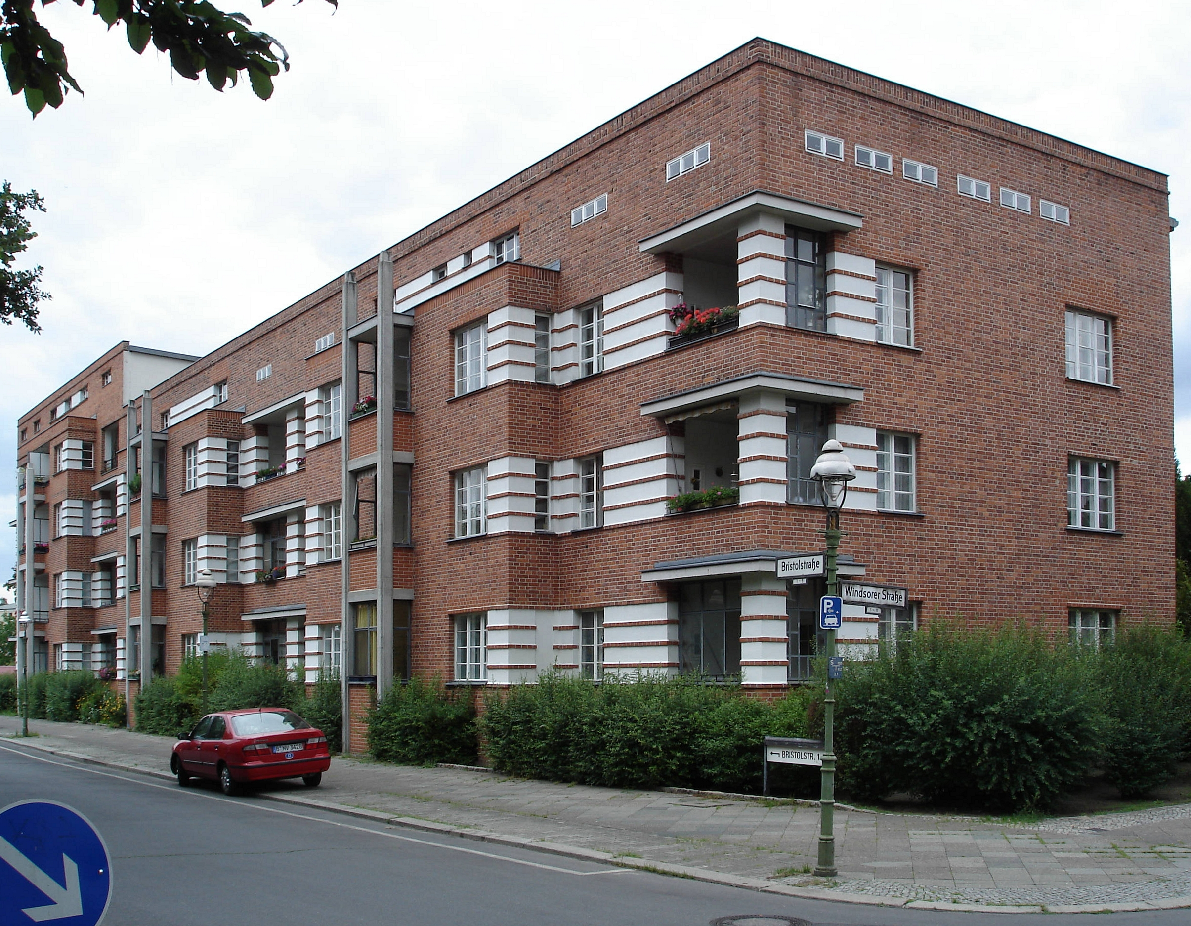 Schillerpark Housing Estate in Berlin-Wedding; view of the buildings Bristolstraße 5, 3, and 1 from Bristolstraße at the corner of Windsorer Straße